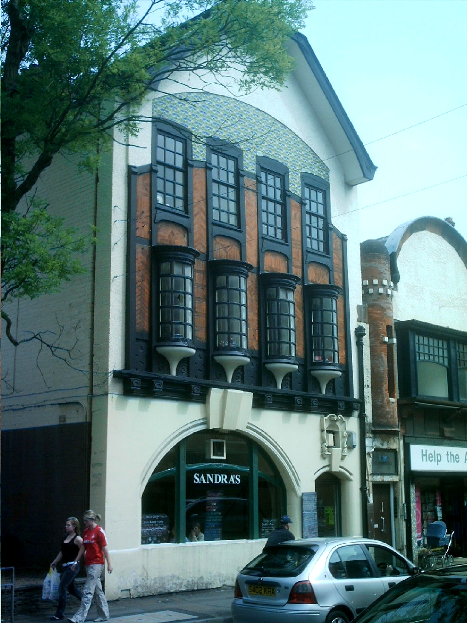 Long Eaton South derbyshire